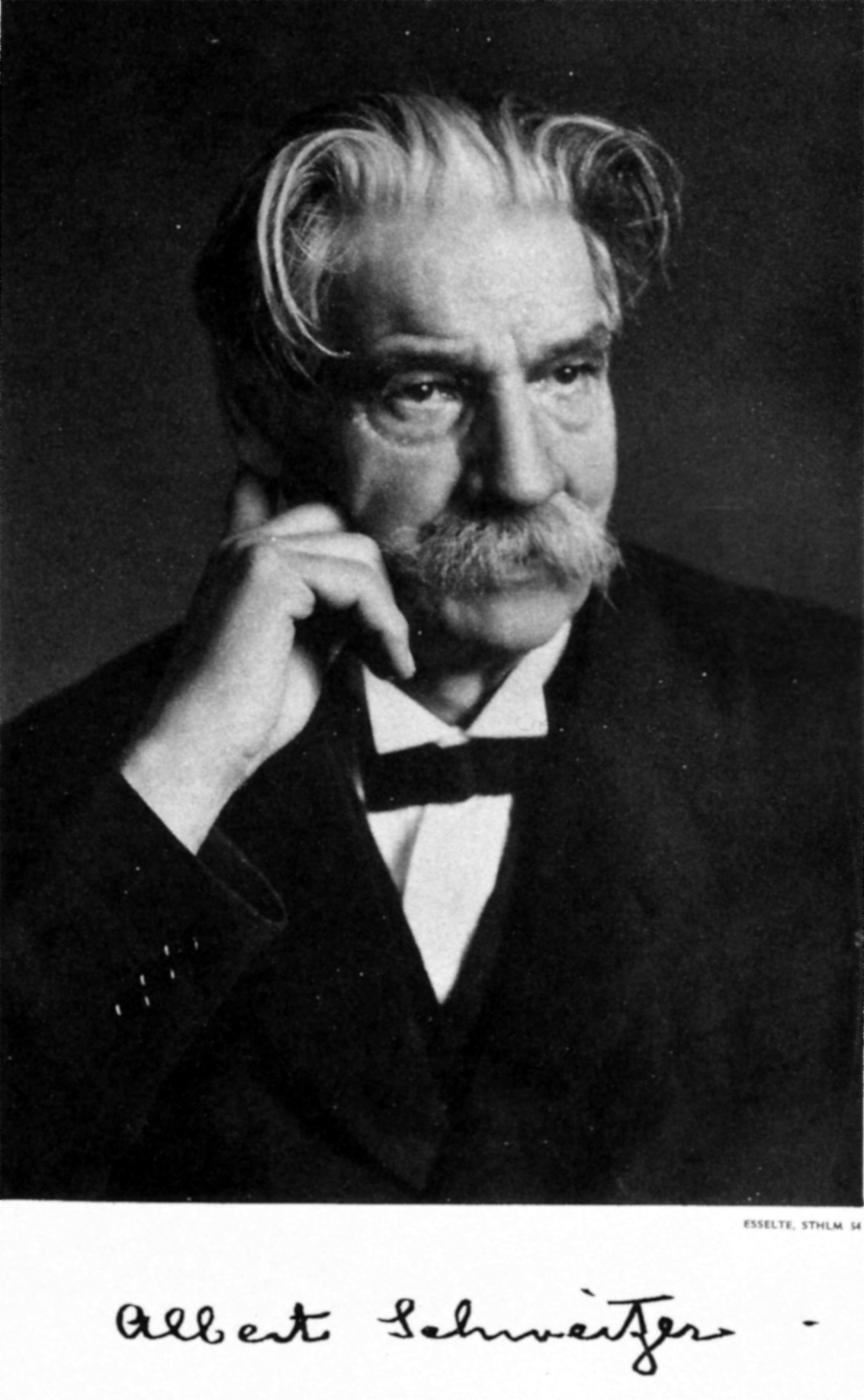 Official Nobel portrait of Albert Schweitzer, with his signature.